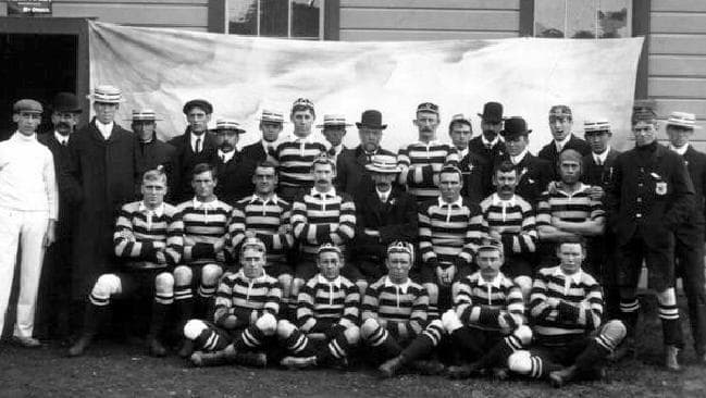 The Australia national team that toured on New Zealand, wearing the maroon and sky blue shirt.